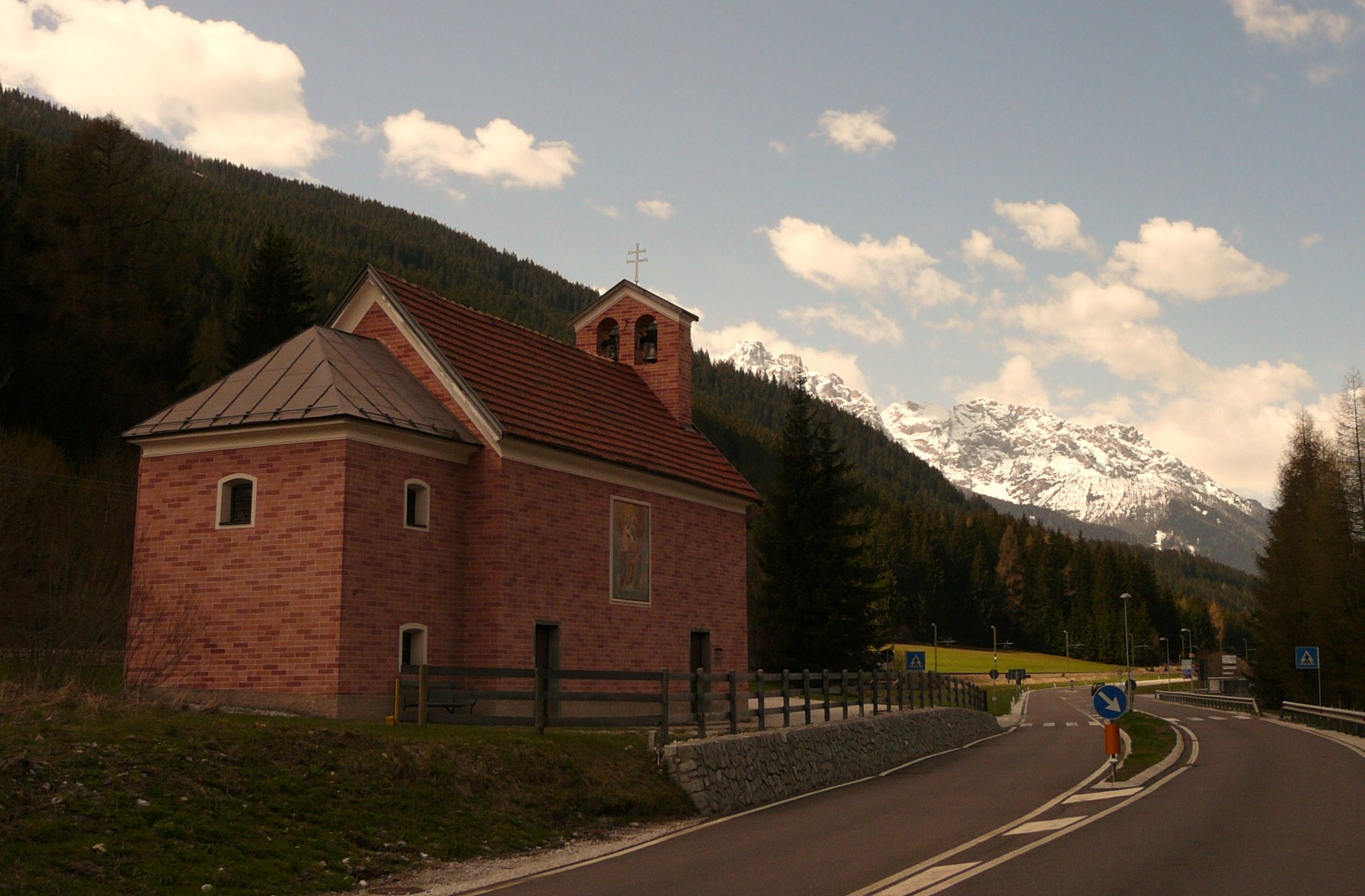 Loreto Chapel in Winnebach (municipality Innichen), South Tyrol